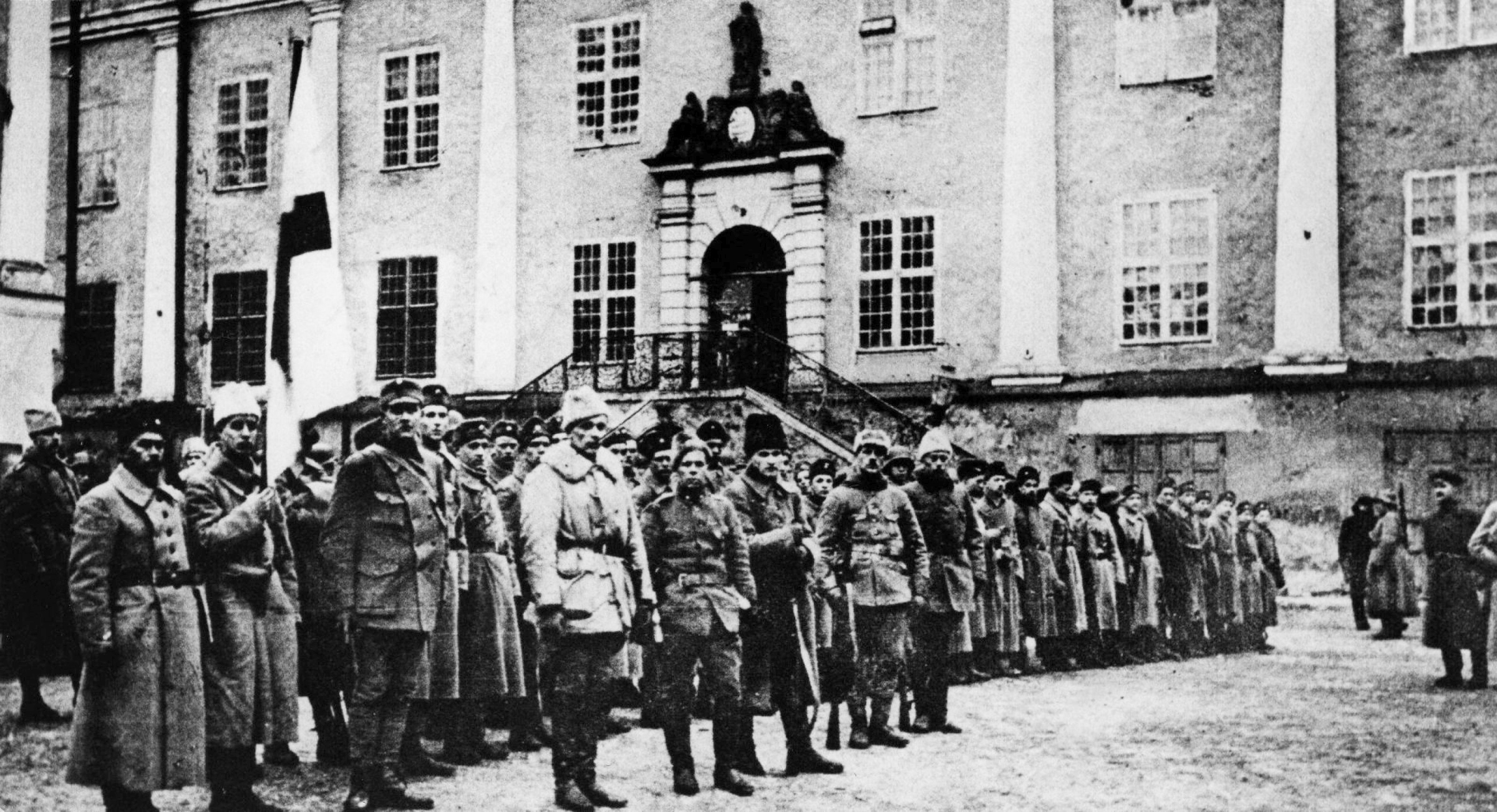 Photograph of Finnish volunteers in Narva during the Estonian war of independence.